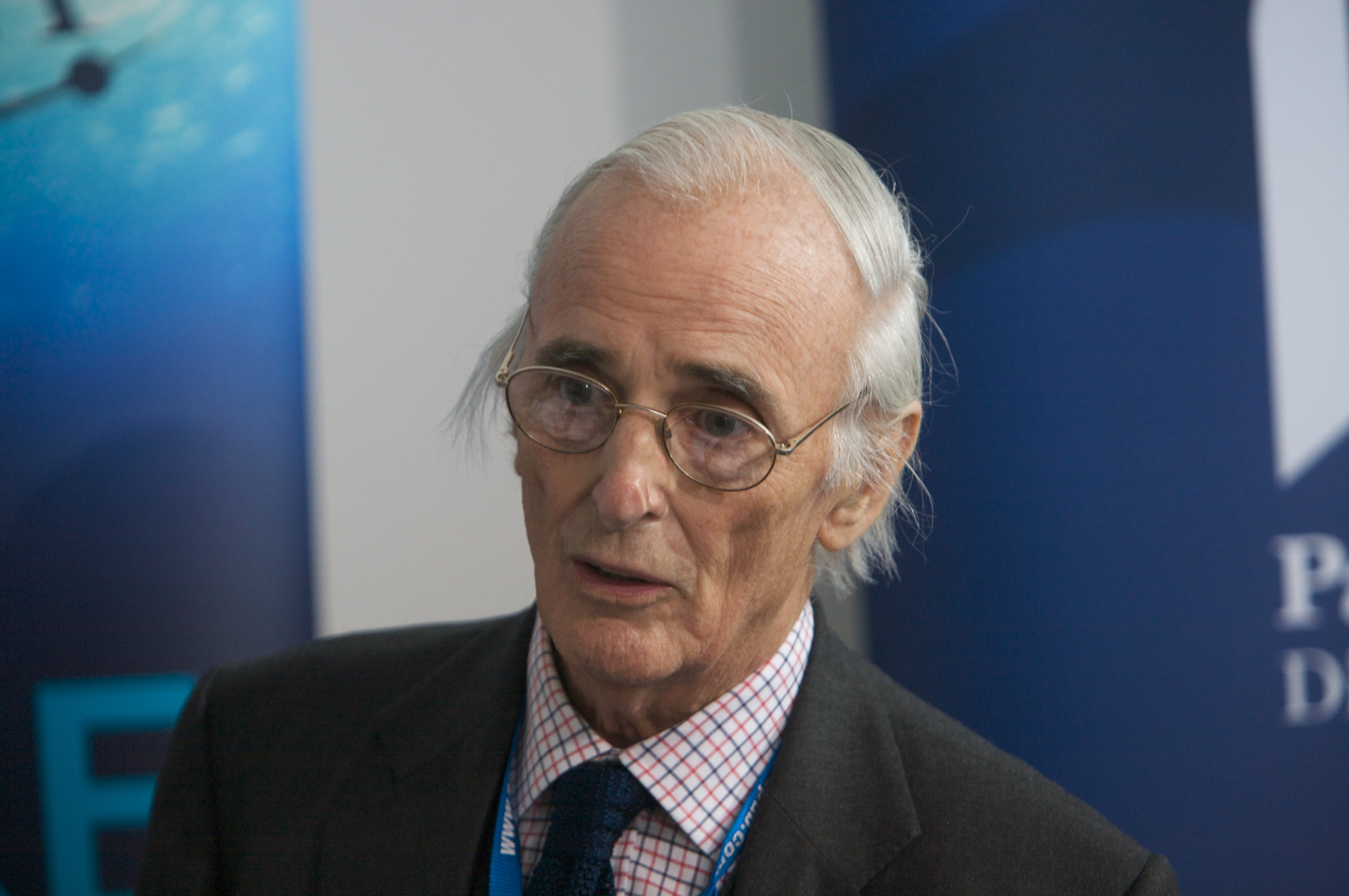 Thomas Stuttaford, British journalist and former Member of Parliament, speaking at the Health Hotel session "From Whitehall to the town hall - no longer a national health service?" at the Manchester Central Conference Centre during the Conservative Party Conference 2009.